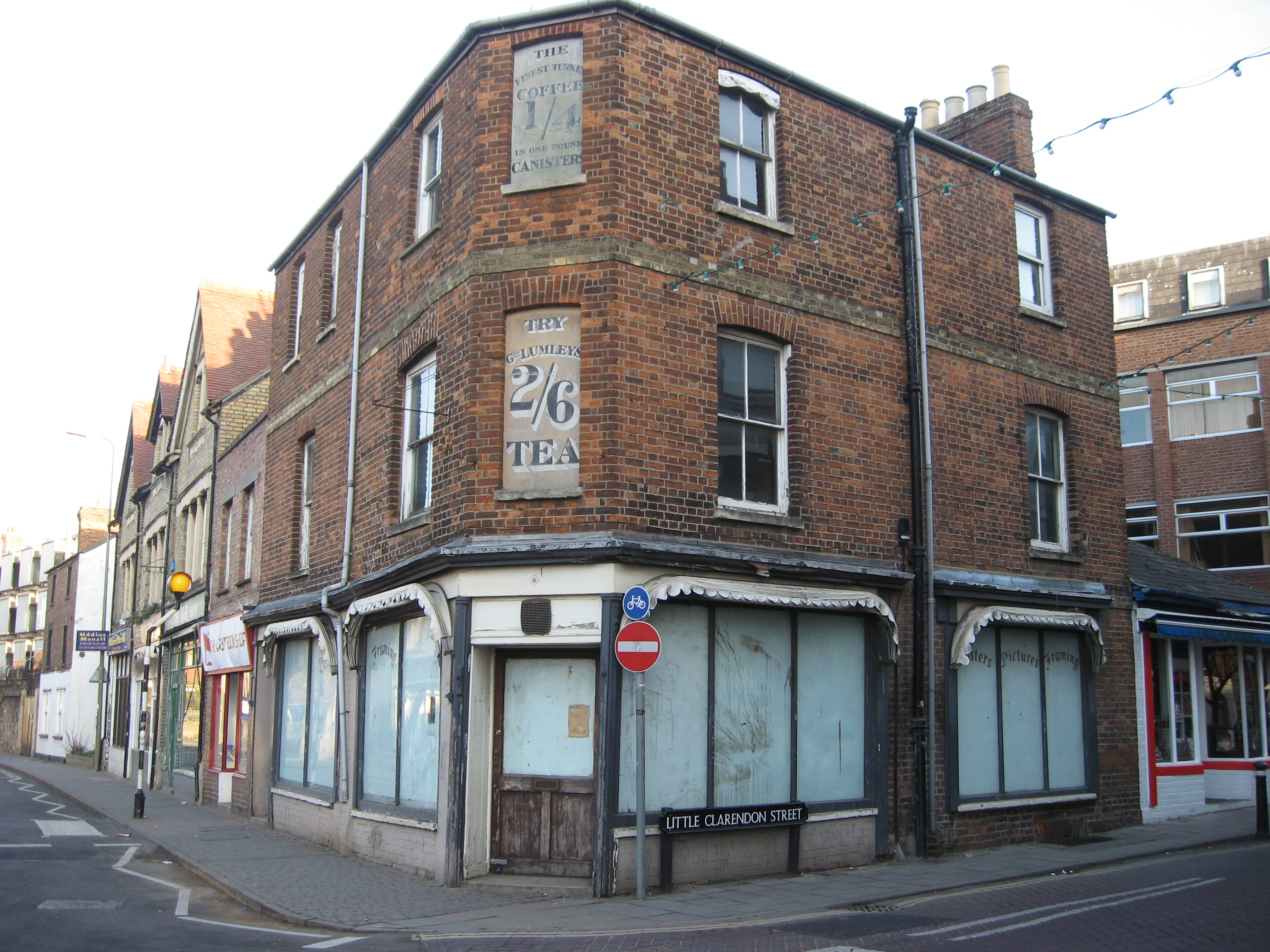 A long-vacant property in Oxford, once occupied by squatters when owned by University College.